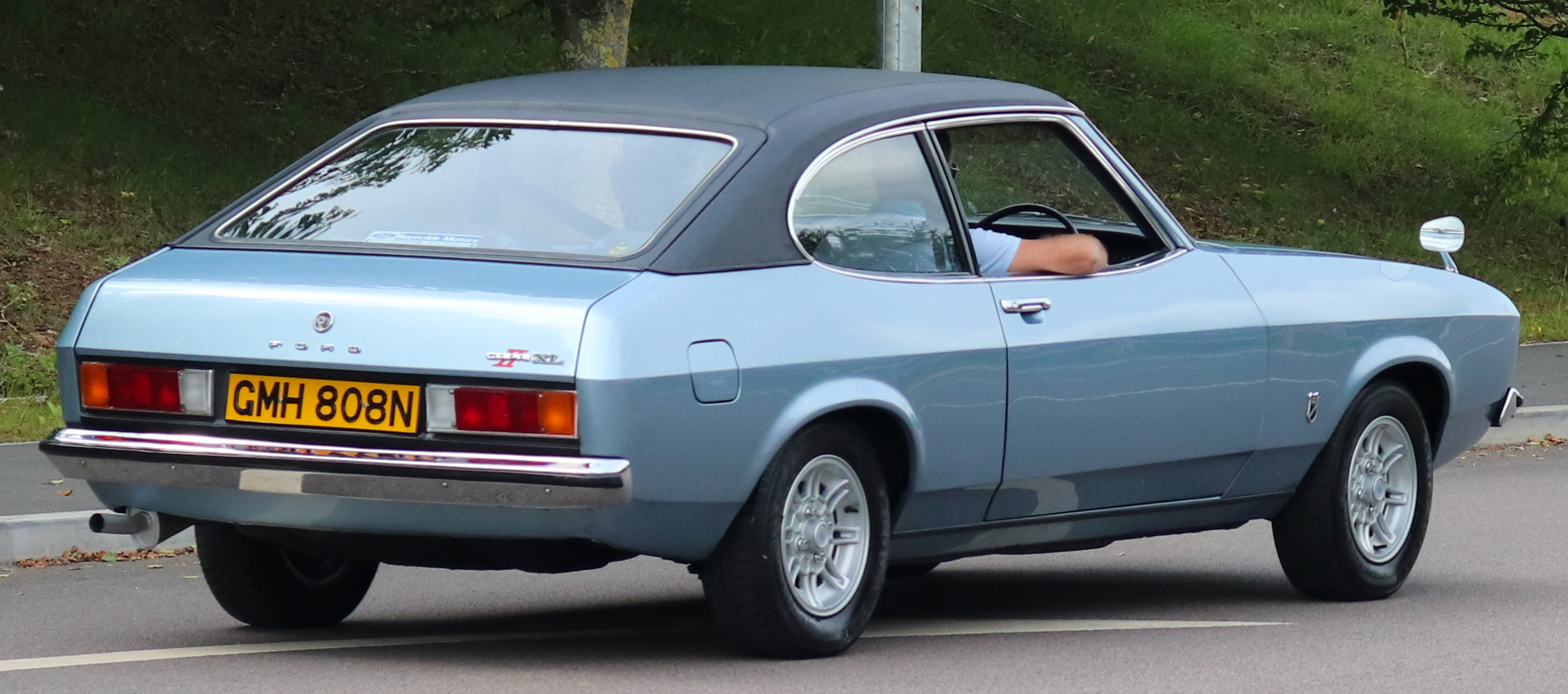 1974 Ford Capri II 1600 XL Rear Taken at the British Motor Museum Old Ford Rally 2019, Gaydon